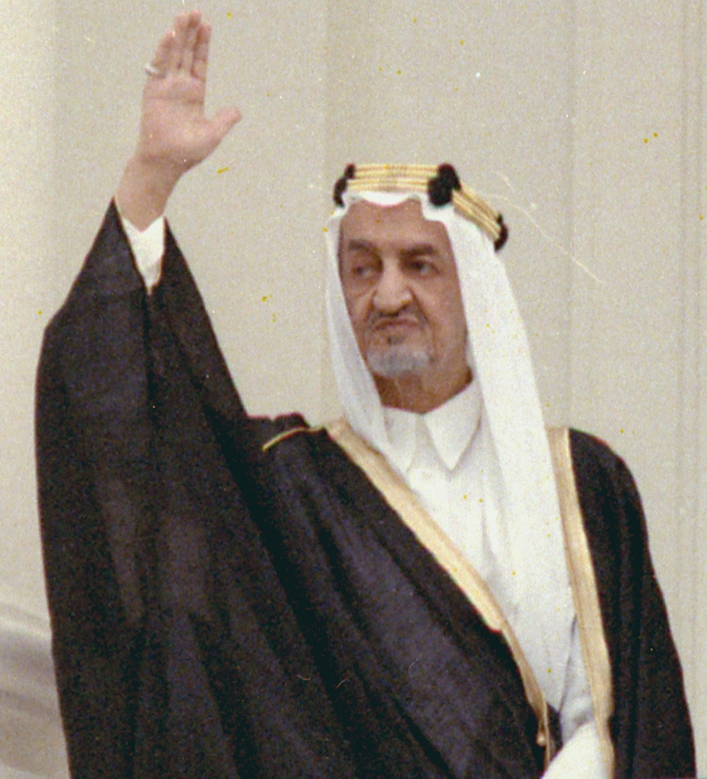 King Faisal Ibn Abd Al-Aziz of Saudi Arabia, President Nixon, Mrs Nixon. Arrival ceremony welcoming King Faisal of Saudi Arabia.